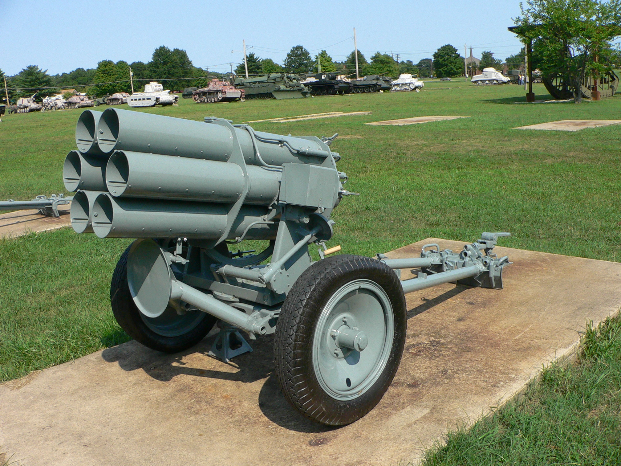 Picture taken by myself, Mark Pellegrini, at the United States Army Ordnance Museum (Aberdeen Proving Ground, MD) on August 14, 2007.